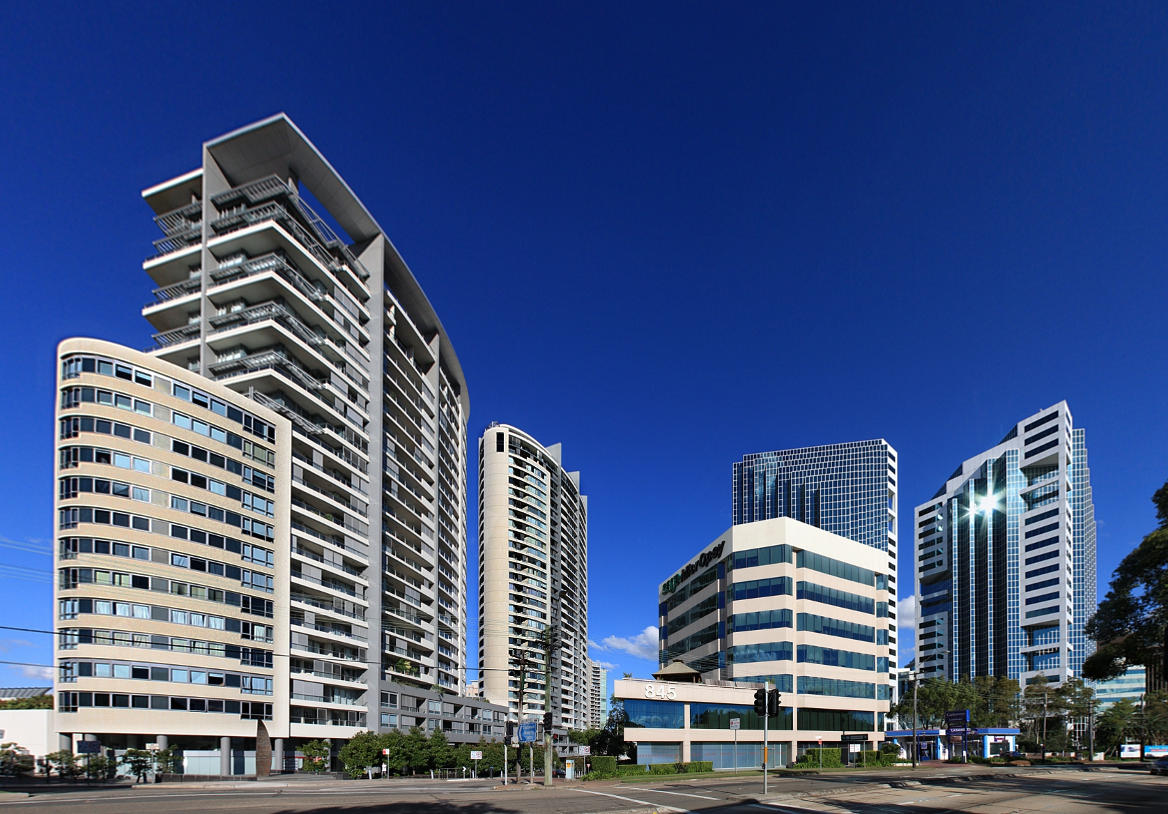 Chatswood, New South Wales on the Pacific Highway (Australia)